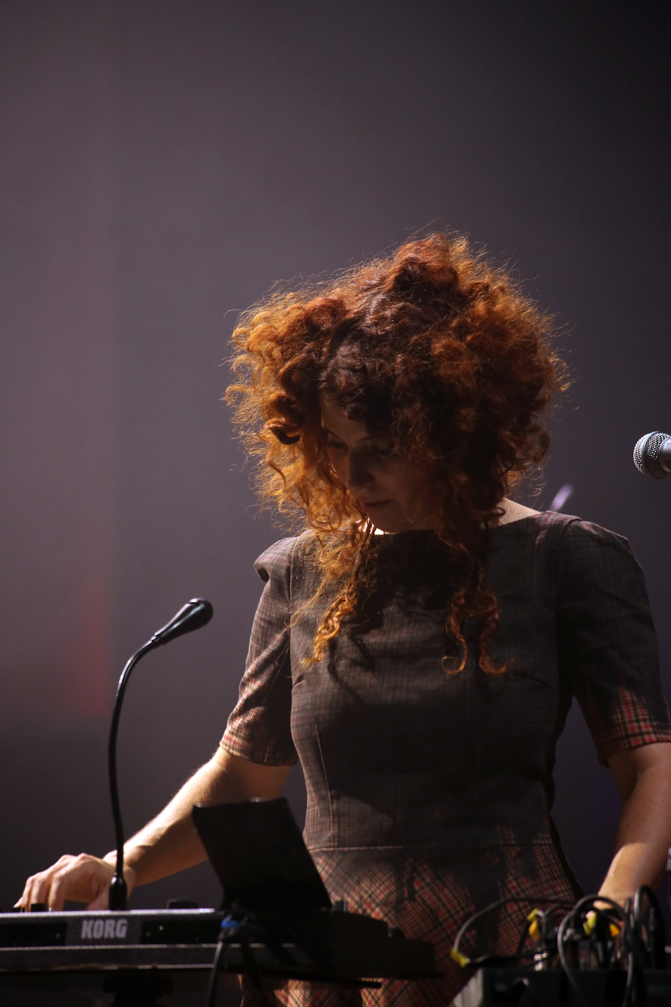 Eloui - concert at Odeon during Waves Vienna Music Festival & Conference 2012 in Vienna, Austria.